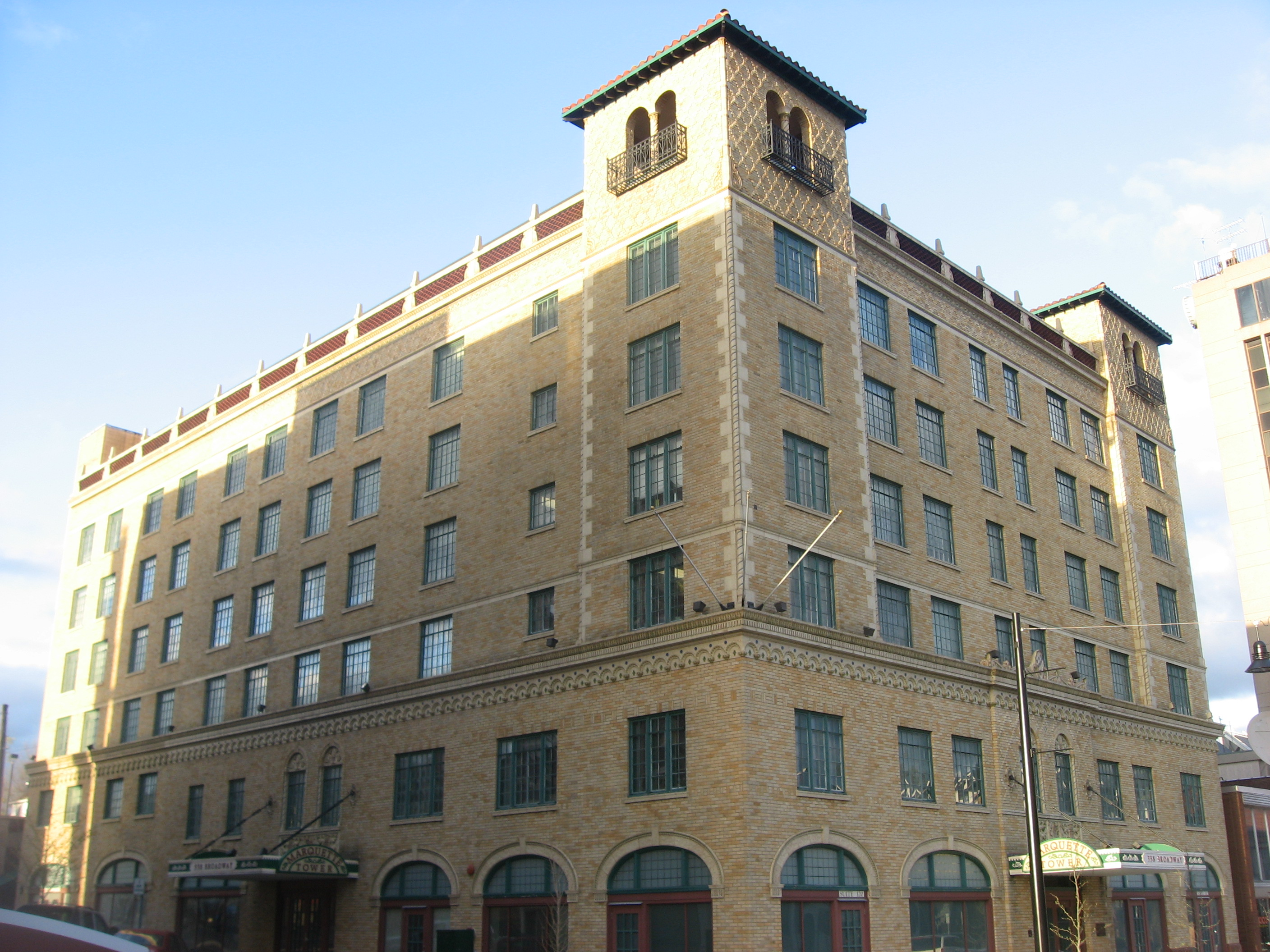 Front and western side of the Marquette Hotel, located at 388 Broadway Street in Cape Girardeau, Missouri, United States. Built in 1928, it is listed on the National Register of Historic Places, and it is part of a Register-listed historic district, the Broadway and North Fountain Street Historic District.